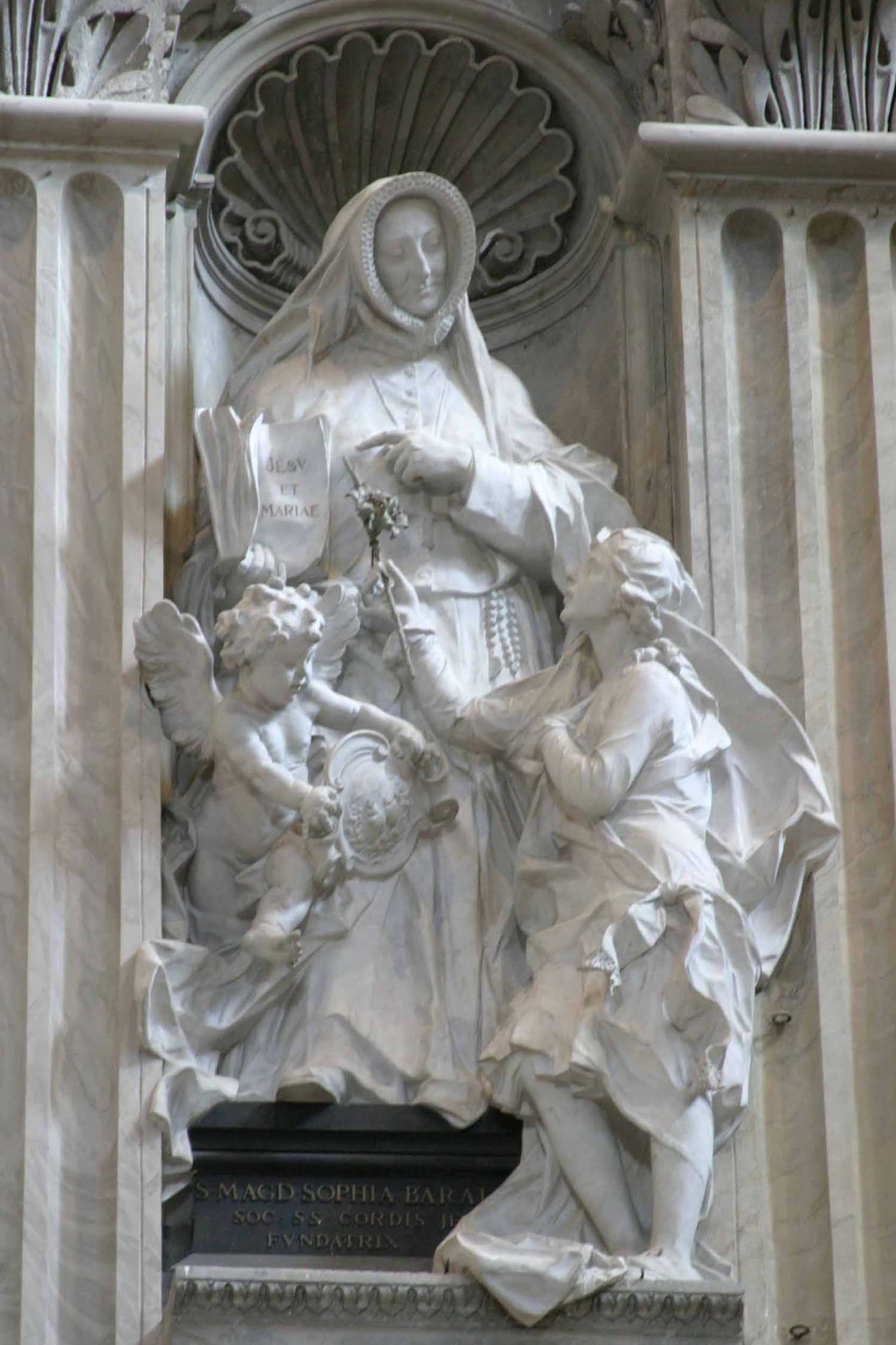 St. Sophie Barat, at St. Peter's Basilica in Vatican. 1934